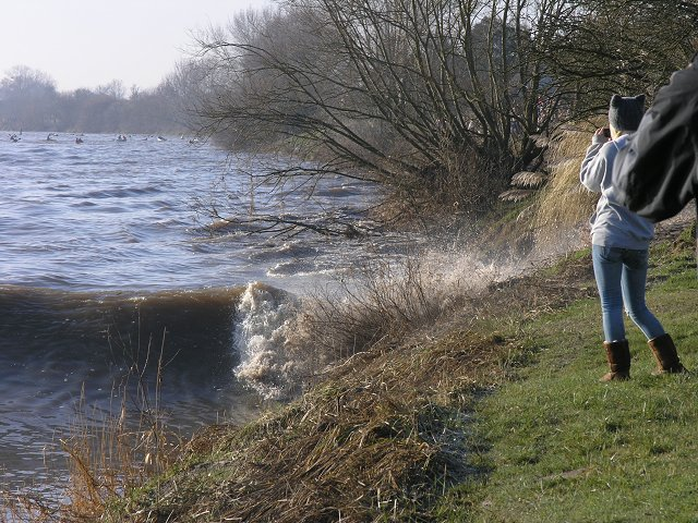 Severn Bore imminent 8:58am 0 seconds. Photograph taken just as the bore wave was arriving at our location just north of Severn Bore Inn. Based on the wetness of the ground, the previous tide's wave had caused a much bigger splash - others around me commented that this wasn't the biggest bore they'd seen too. Despite being predicted a 5* bore based on tidal height, many other factors come into play in the creation of bore wave including river flow and air pressure. It was certainly impressive none the less!